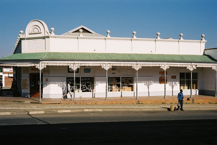 Typical colonial building in central Piet Retief, June 2006. Author: Marek Jasiok